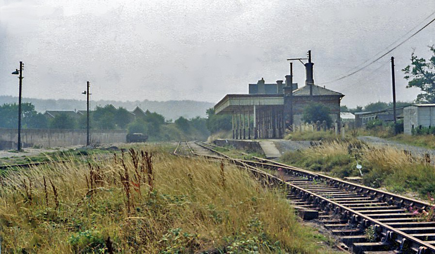 Cheadle (Staffs.) station remains. View eastward, towards the buffer-stops, ex-North Staffordshire Railway branch from Cresswell. A passenger service survived until 17/6/63 and goods trains continued until 12/5/86 - hence the rails still shining in 1983.